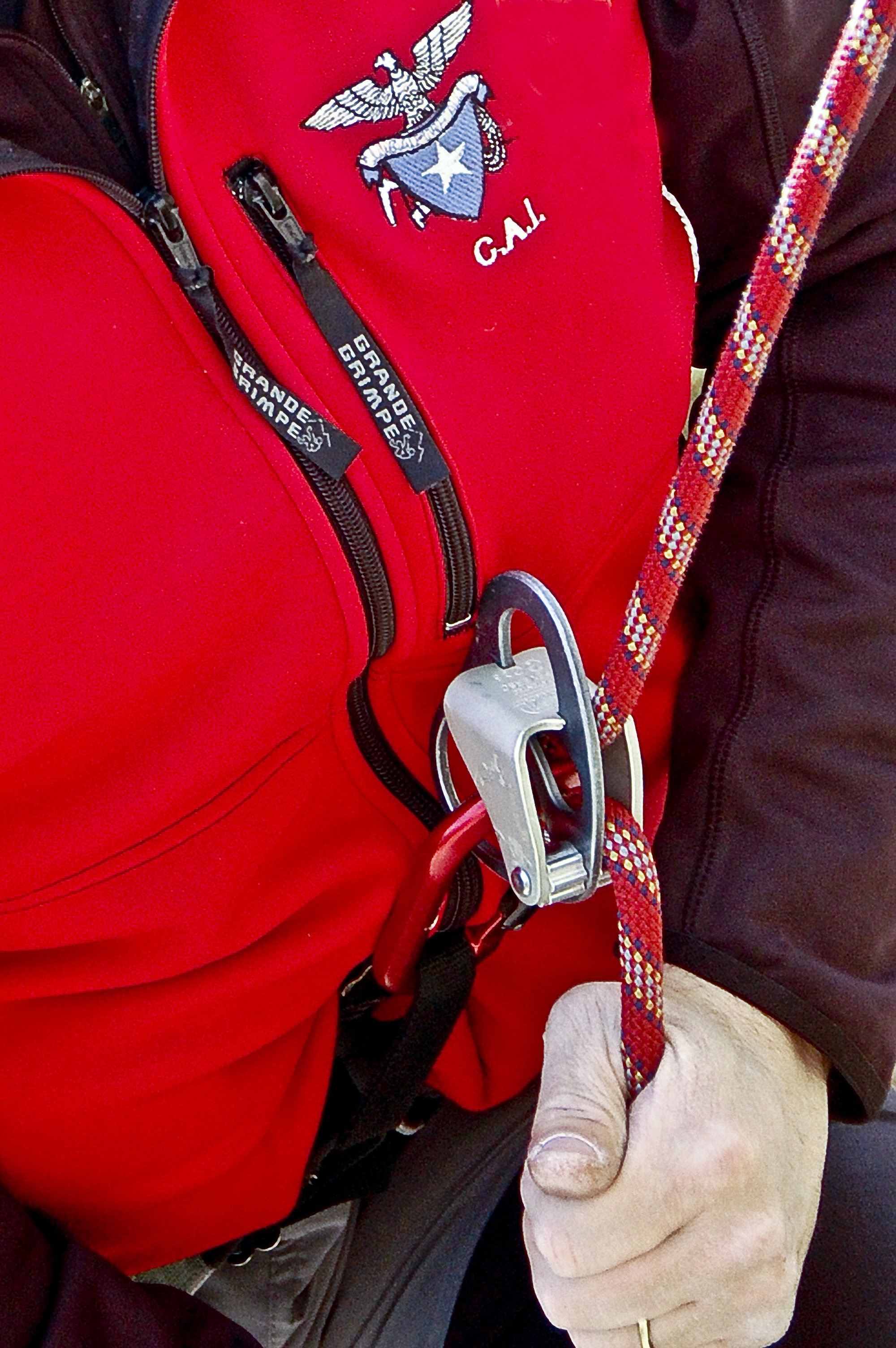 Dinamic belaying with tuber